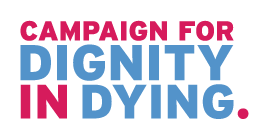 The logo of the campaign organisation Dignity in Dying